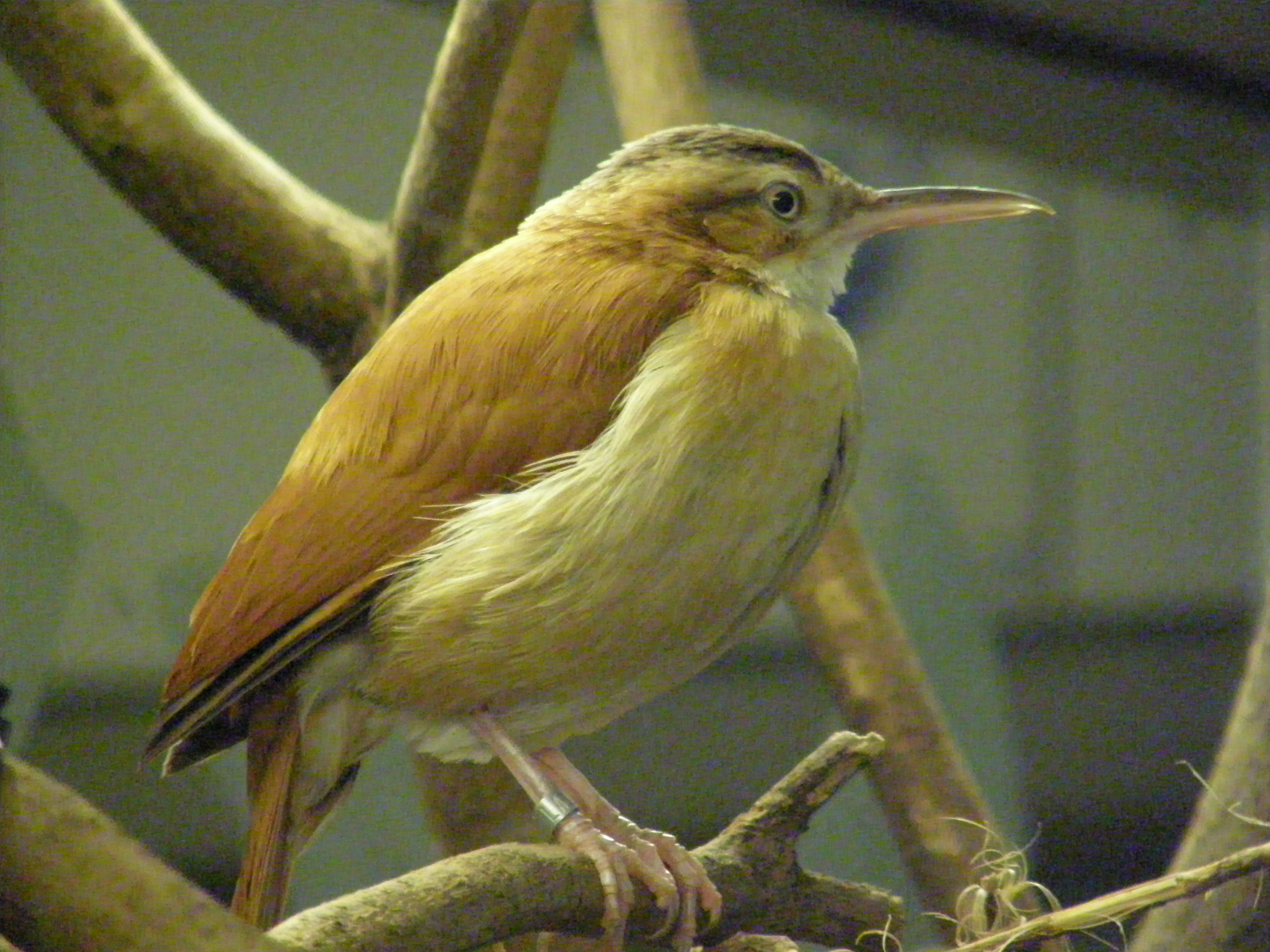 Furnarius cinnamomeus (often considered a subspecies of F. leucopus) at Antwerpen zoo.